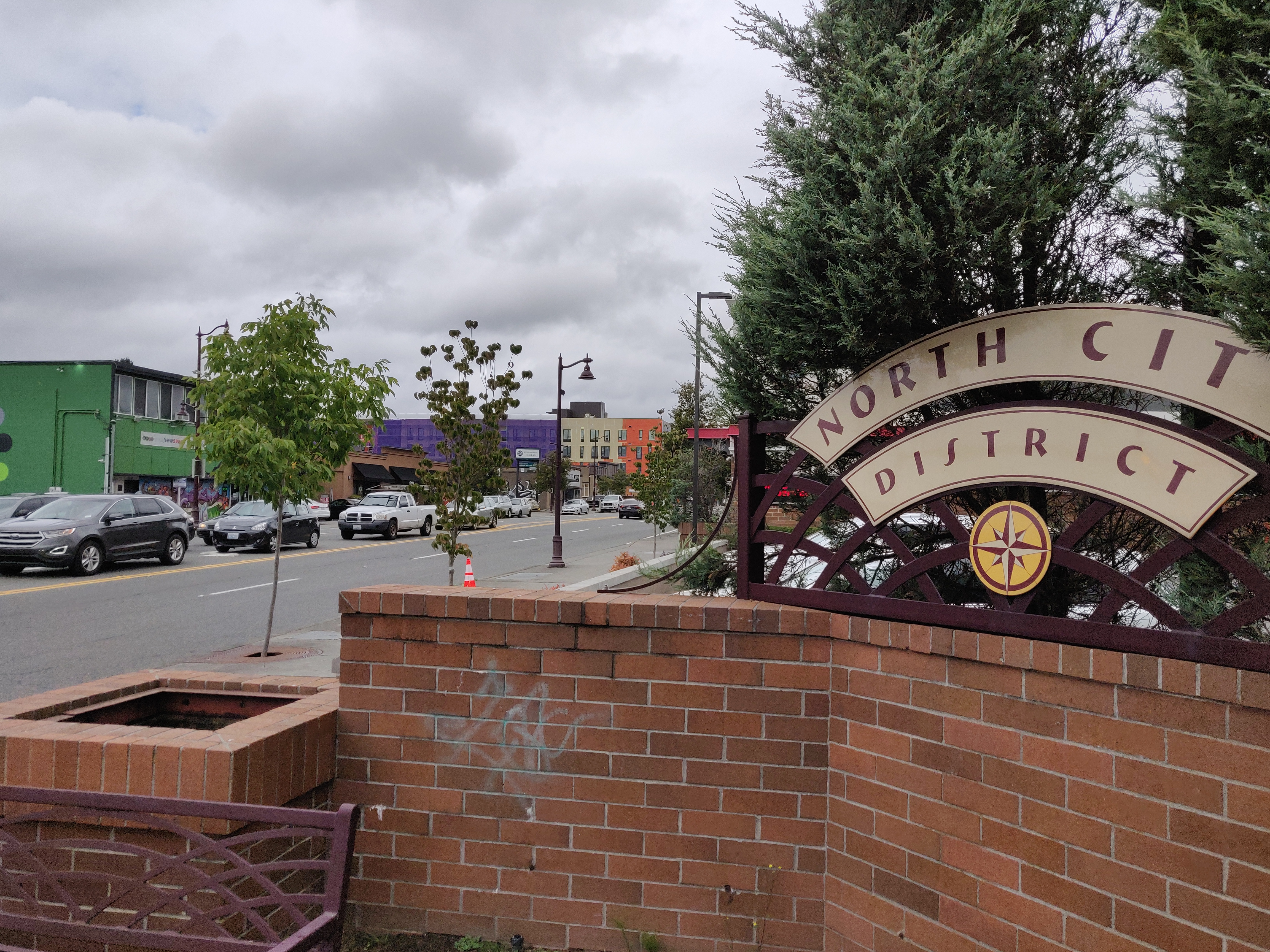 The commercial center of the North City neighborhood in Shoreline, WA